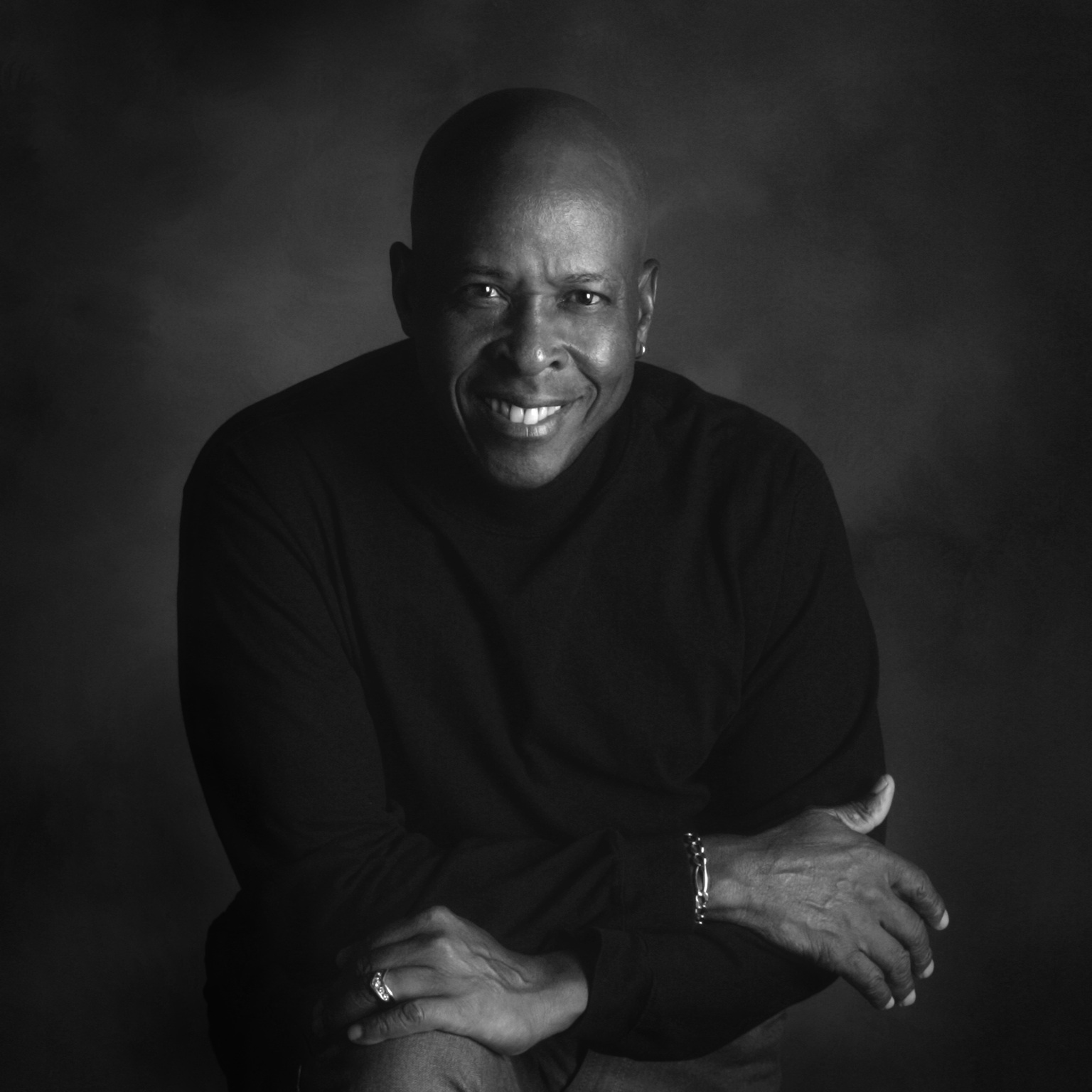 David Porter, American record producer, songwriter, singer, entrepreneur and philanthropist.